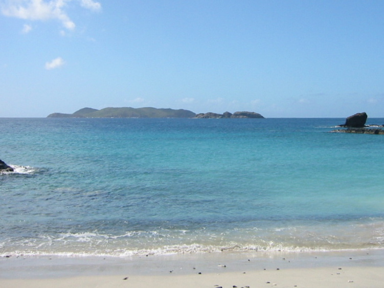 Savana Island as seen from Mermaid's Chair on the west end of St Thomas, USVI, Jan 2005.